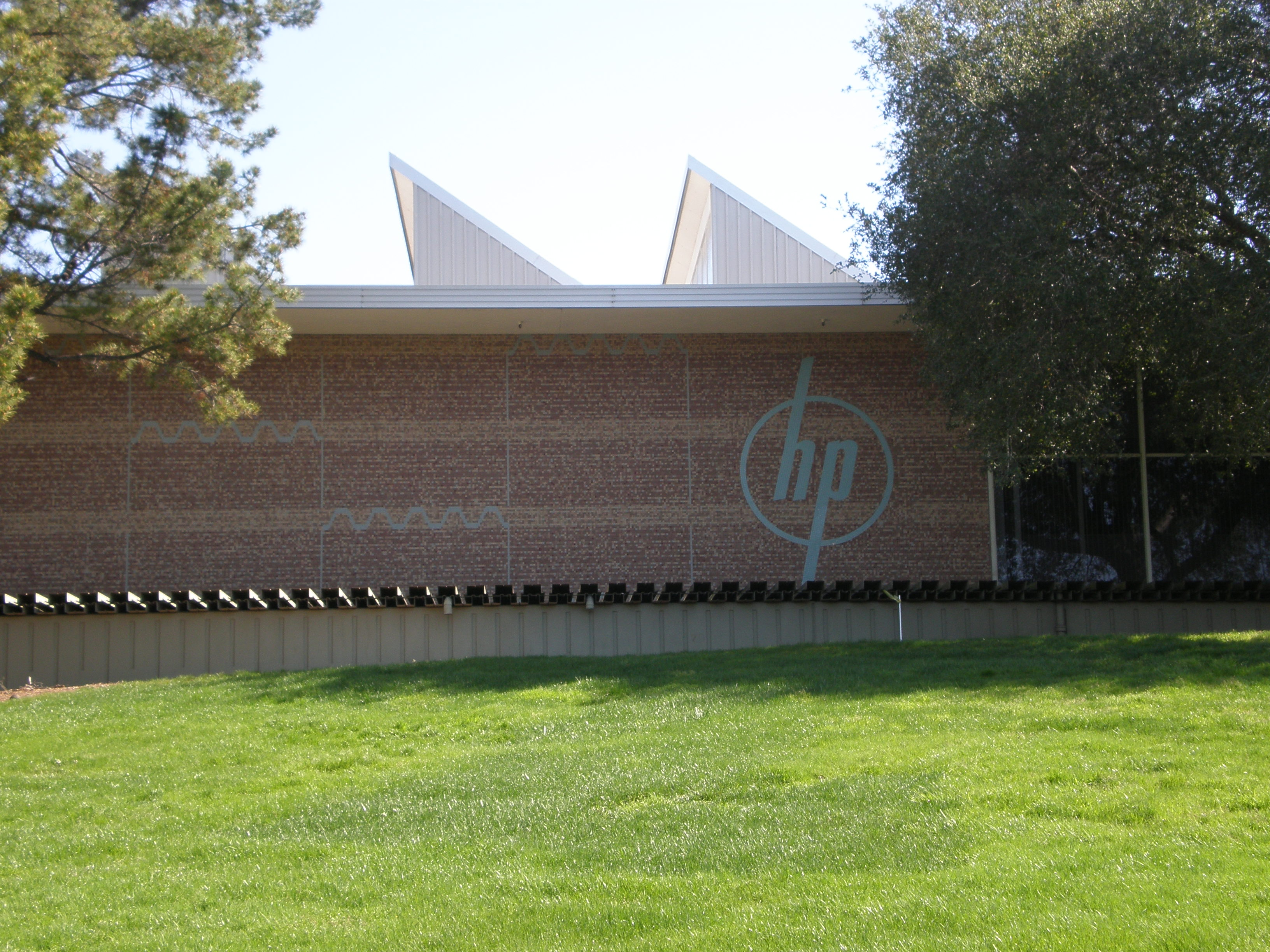 The Hewlett-Packard headquarters campus in Palo Alto, California.